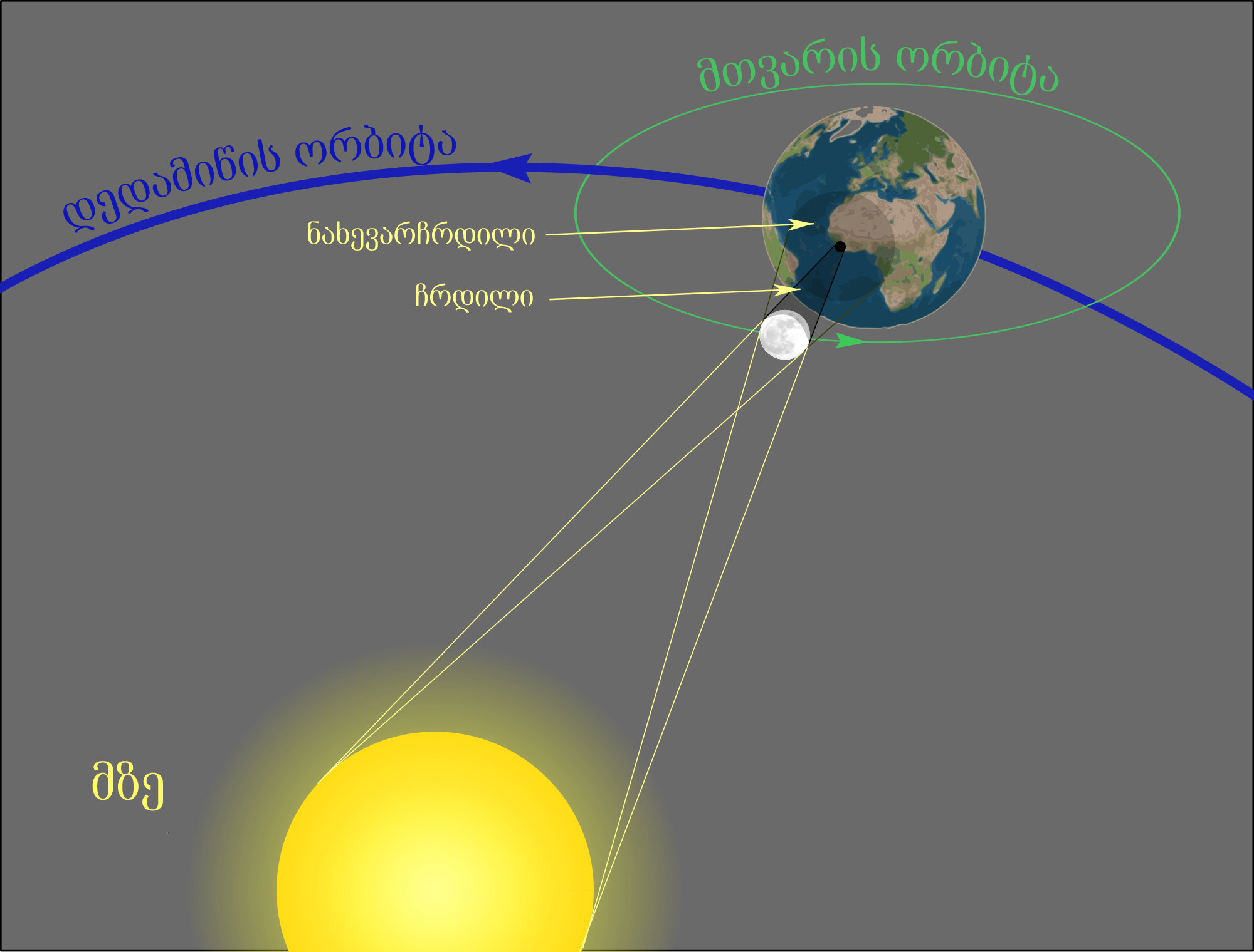 Geometry of a Total Solar Eclipse